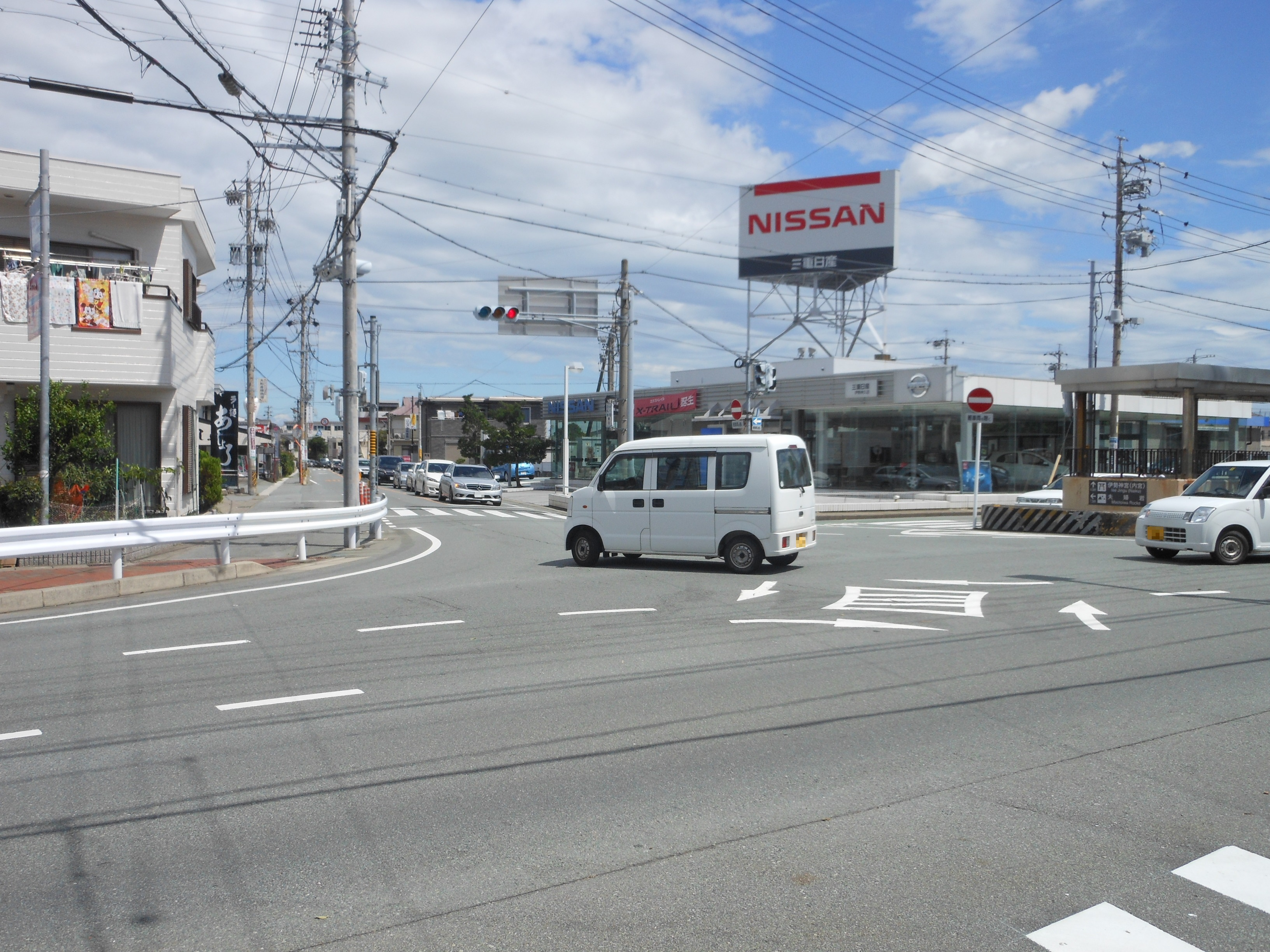 This is the Futami Kaido Iriguchi intersection in Ise, Mie, Japan.